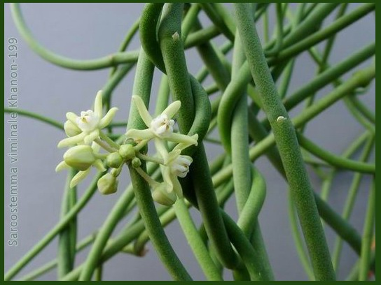 Sarcostemma viminale (syn.Cynanchum), plant 5 ans. Collection de Khanon-199.